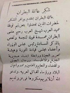 Rohiem al-Batran death declaration